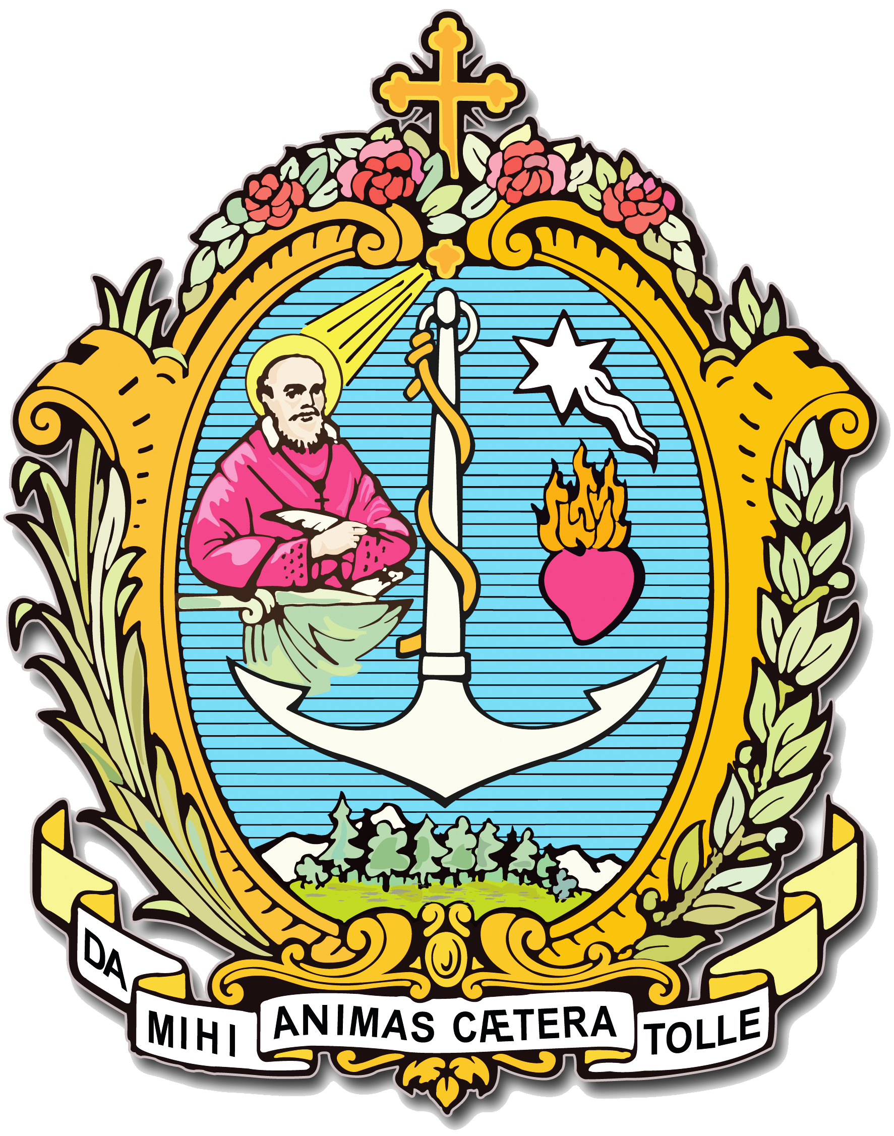 The Salesian Coat of Arms, designed by Professor Boidi, appeared for the first time in a circular letter of Don Bosco's on 8th December 1885. The shining star, the large anchor, the heart on fire symbolize the theological virtues; the figure of St. Francis de Sales recalls the Patron of the Society; the small wood in the lower part reminds us of the Founder; the high mountains signify the heights of perfection towards which members strive; the interwoven palm and laurel that enfold the shield either side are emblematic of the prize reserved for a virtuous and sacrificial life. The motto Da mihi animas, caetera tolle, expresses every Salesian's ideal.